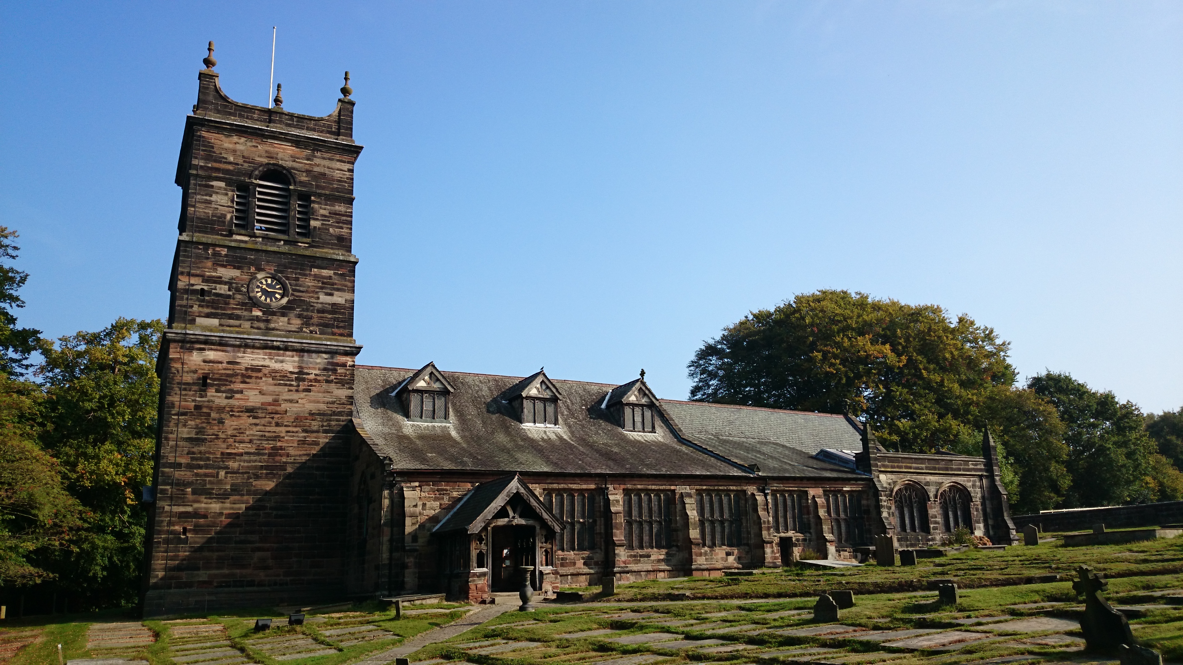 The church, image taken from the graveyard, just to the right of the gate.